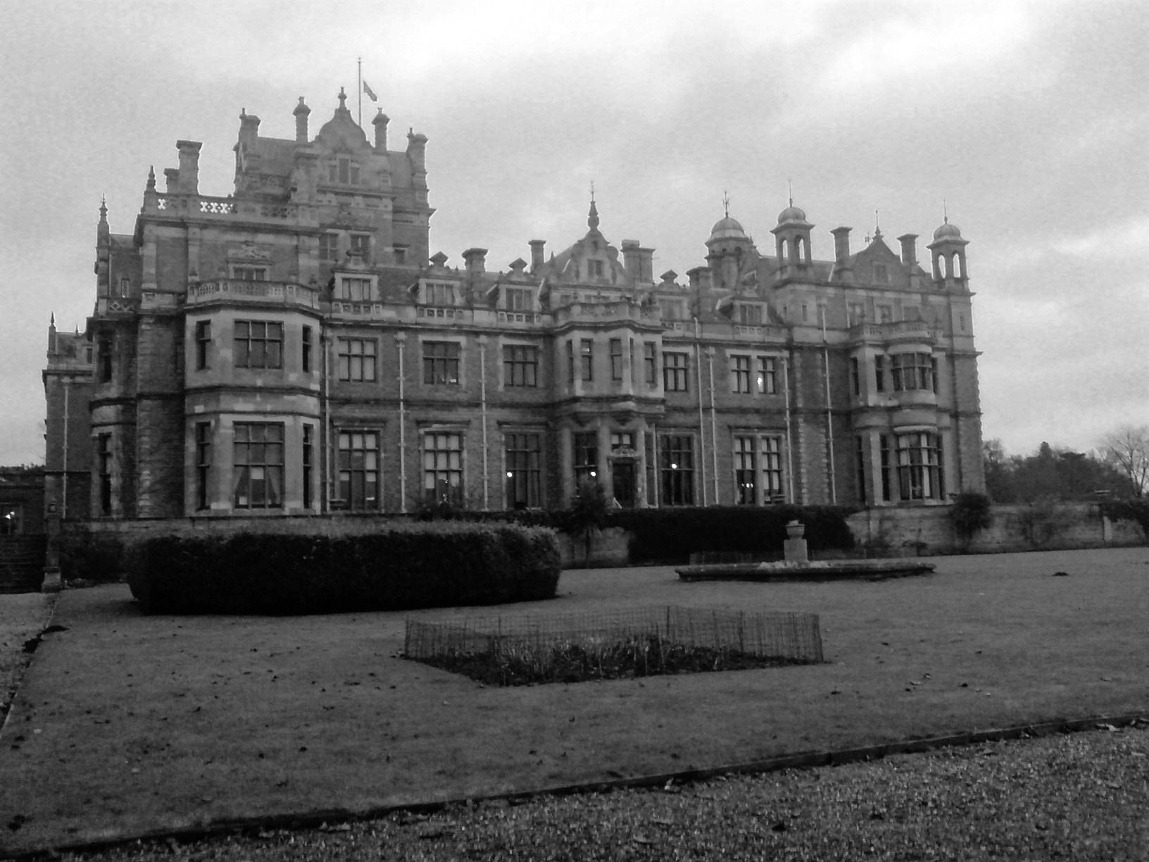 A photograph of Thoresby Hall